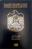 Front cover of an Emirati passport